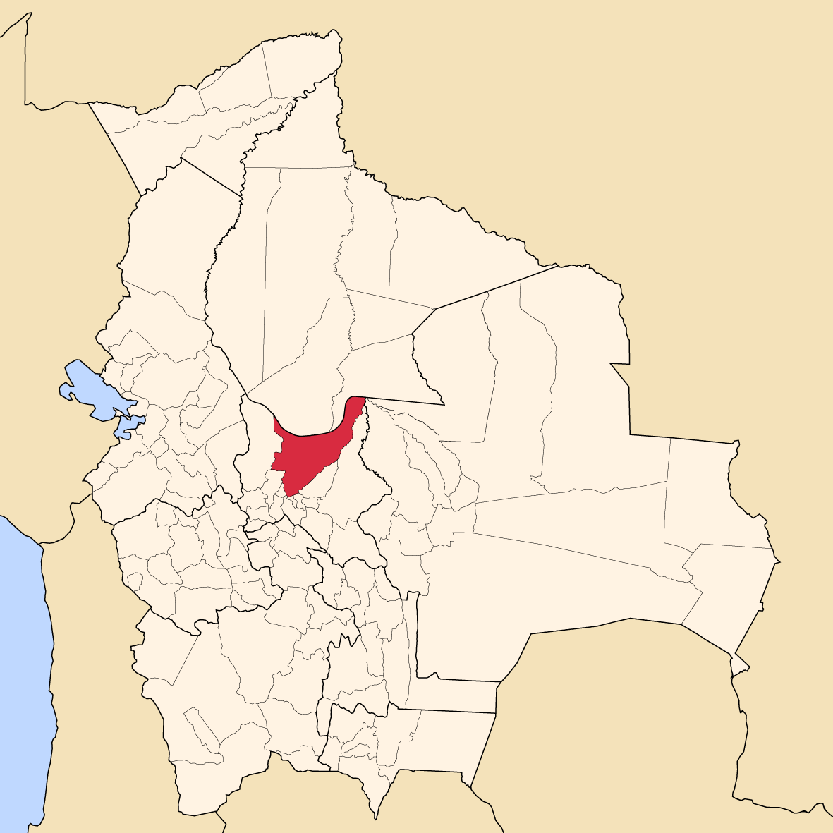 Map of Bolivia showing Chapare province